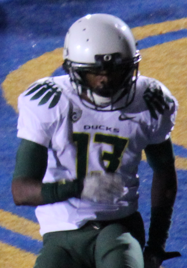 Oregon cornerback Cliff Harris after a punt return for a touchdown against California in Berkeley.